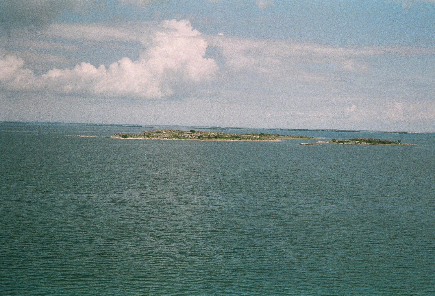 Remote reefs in the Archipelago Sea, Municipality of Föglö, Åland territory, Finland. Groupe de récifs de l'archipel finlandais, municipalité de Föglö, Territoire d'Åland, Finlande.